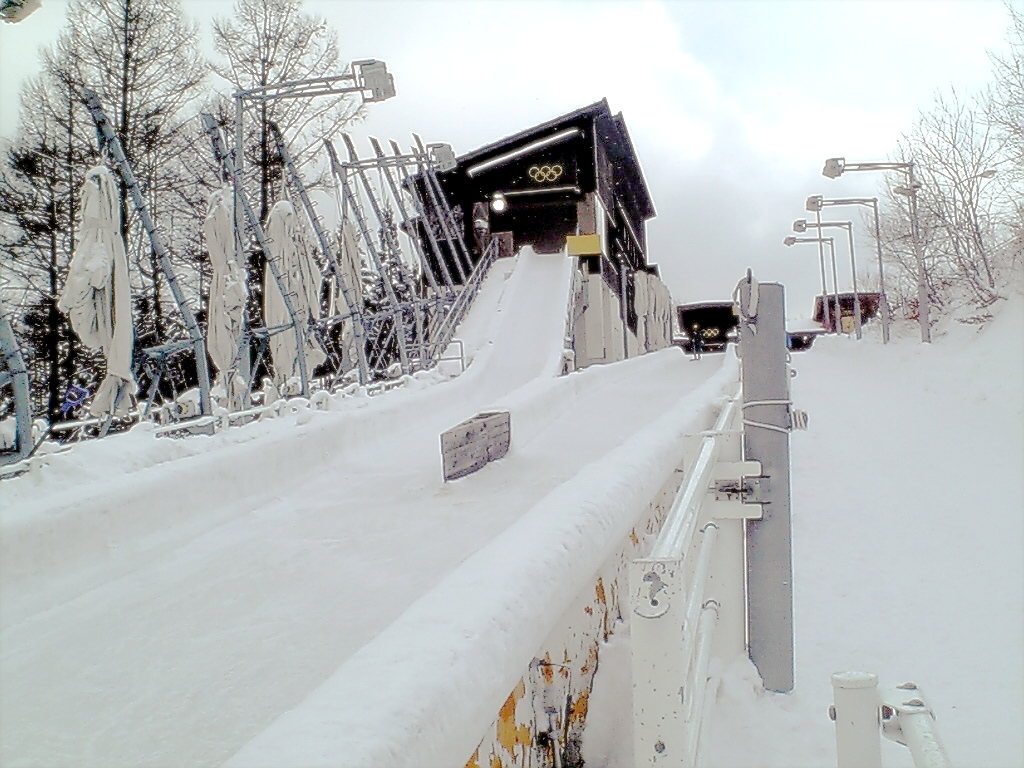 Nagano Bobsleigh-Luge Park in Nagano, Nagano pref., Japan.